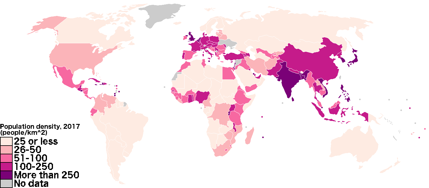 Population density map intended to be an accessible replacement to File:Population density countries 2017 world map, people per sq km.svg. Source: Data table compiled byUnited Nations ESA (2017) Derivative work of File:BlankMap-World-v4.png